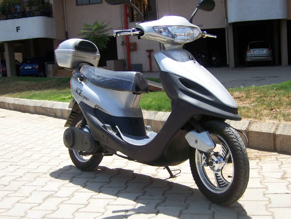 Ace, E-Trendy, in Pune. Made in collaboration with a Chinese company, we picked one up for our office local running around a few weeks ago. So far, so good. In fact, exellent.